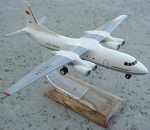 Antonov An-50 scale 1:150 model